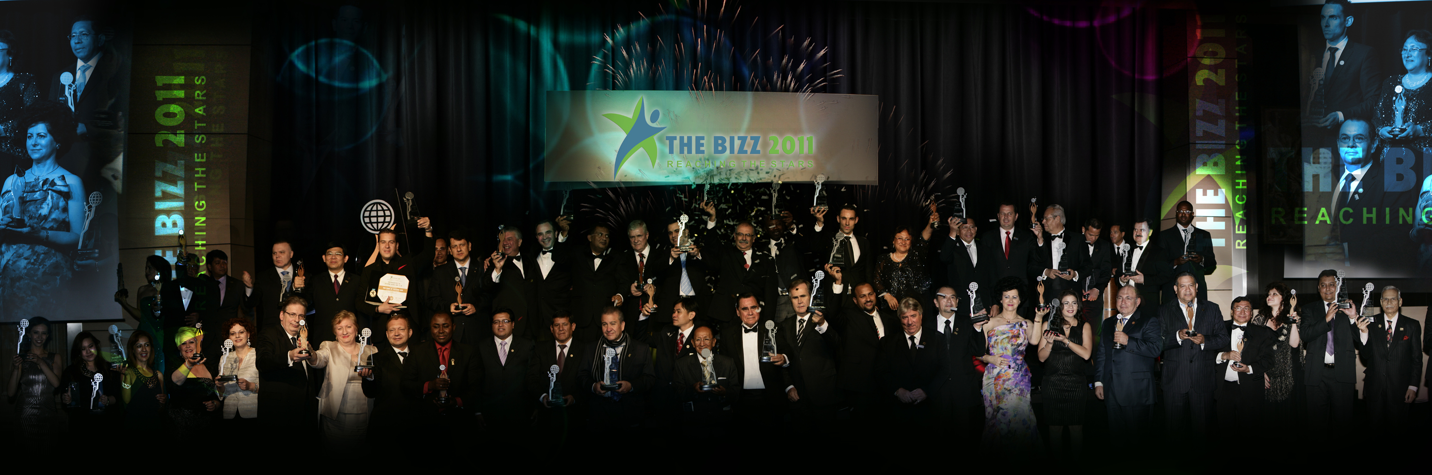 Photo that already appears on English Wikipedia, with OTRS email coming.